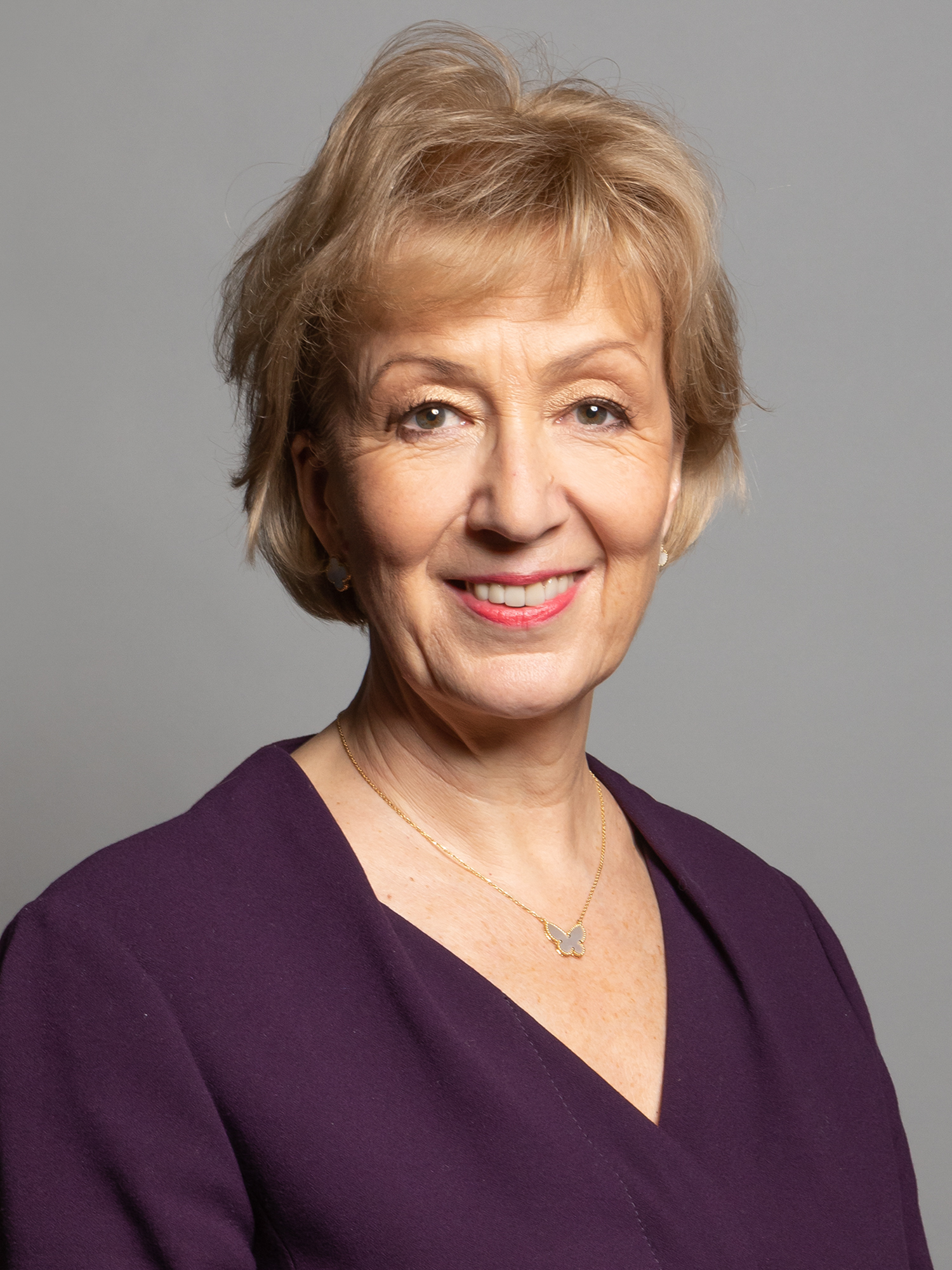 Official portrait of Rt Hon Andrea Leadsom MP 3×4 portrait of Andrea Leadsom